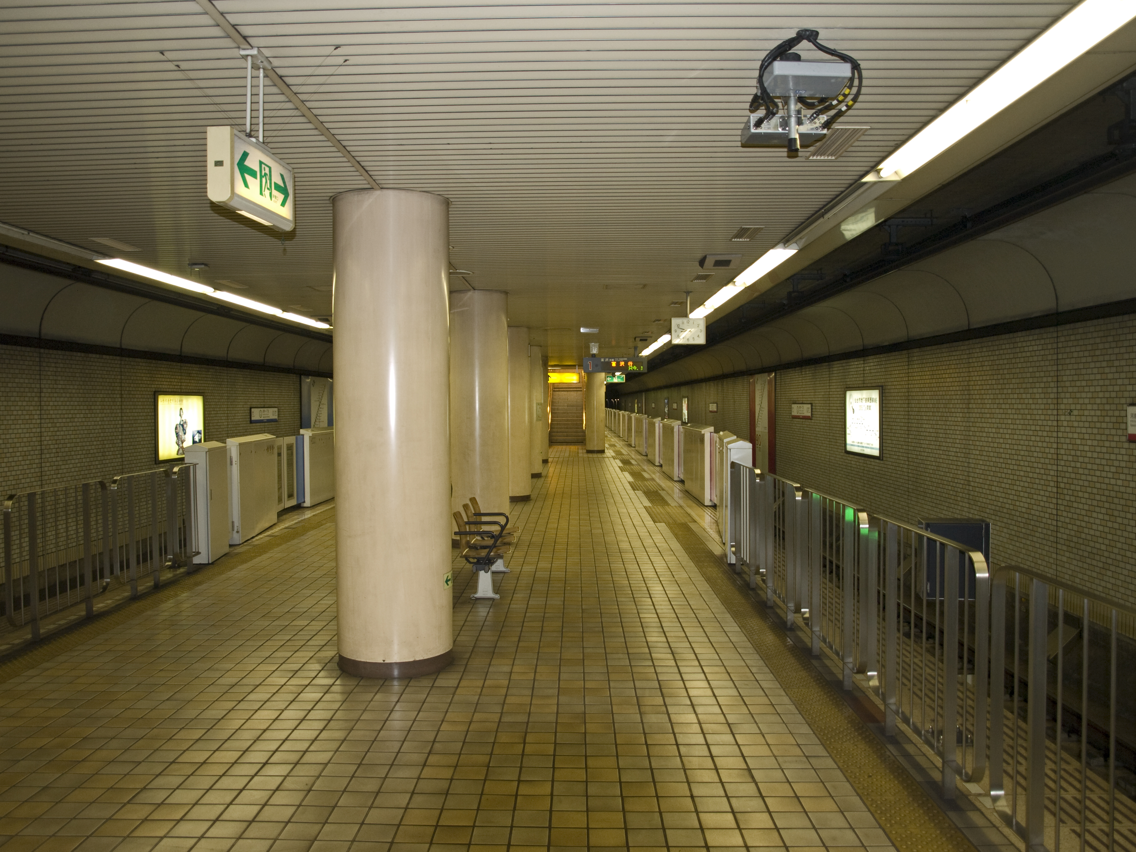 Nagamachi-Itchome Station platforms, Sendai Metro